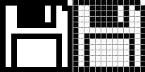 Mini-game example Picross DS (2007)